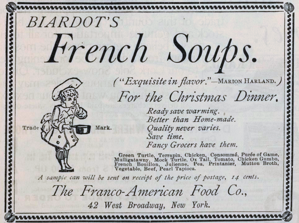 Advertisement for Biardot's French Soups from "Lippincott's" magazine, December 1890.